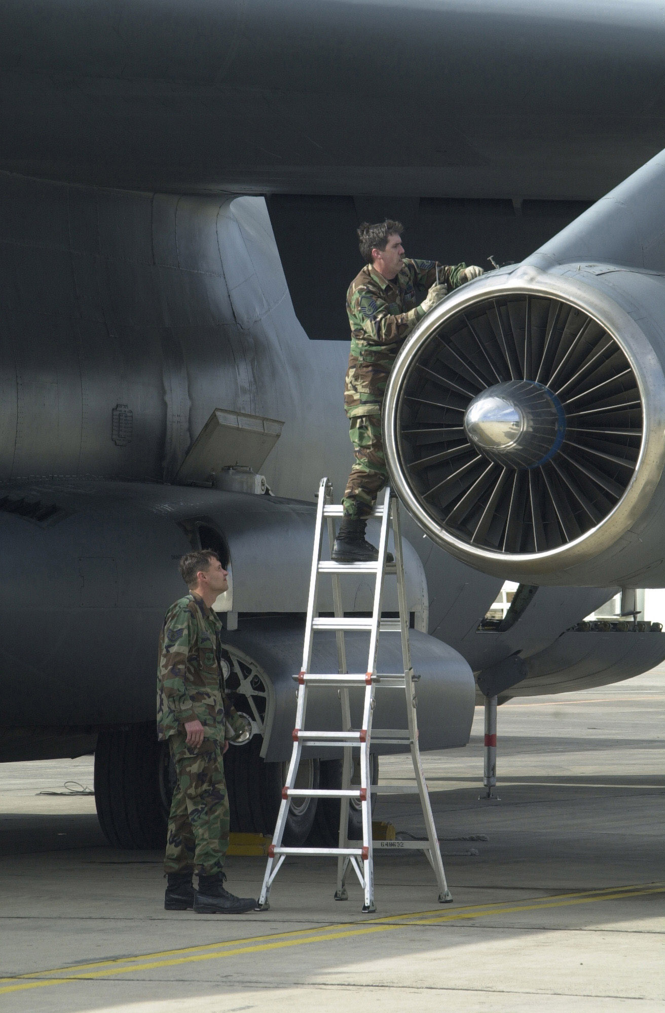 Mechanics work on one of the Pratt & Whitney TF-33P7 engines of a Lockheed C-141 Starlifter.